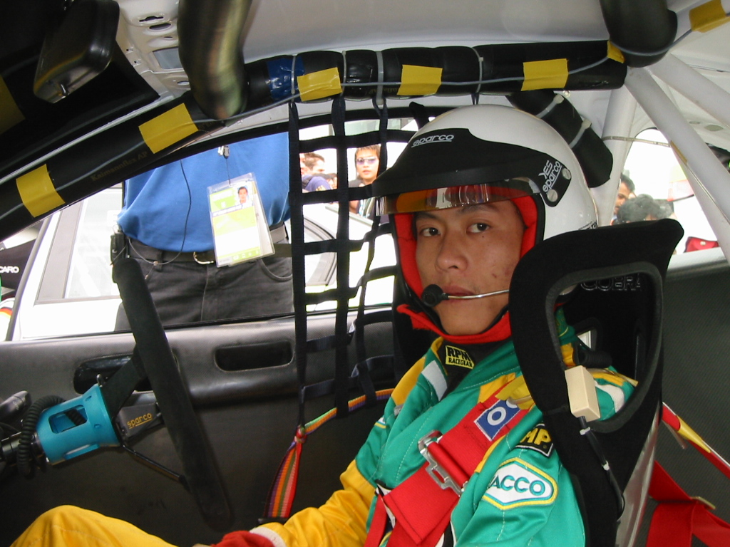 Lo Kai Fai in his racing car before the Macau Guia Race in 2002.